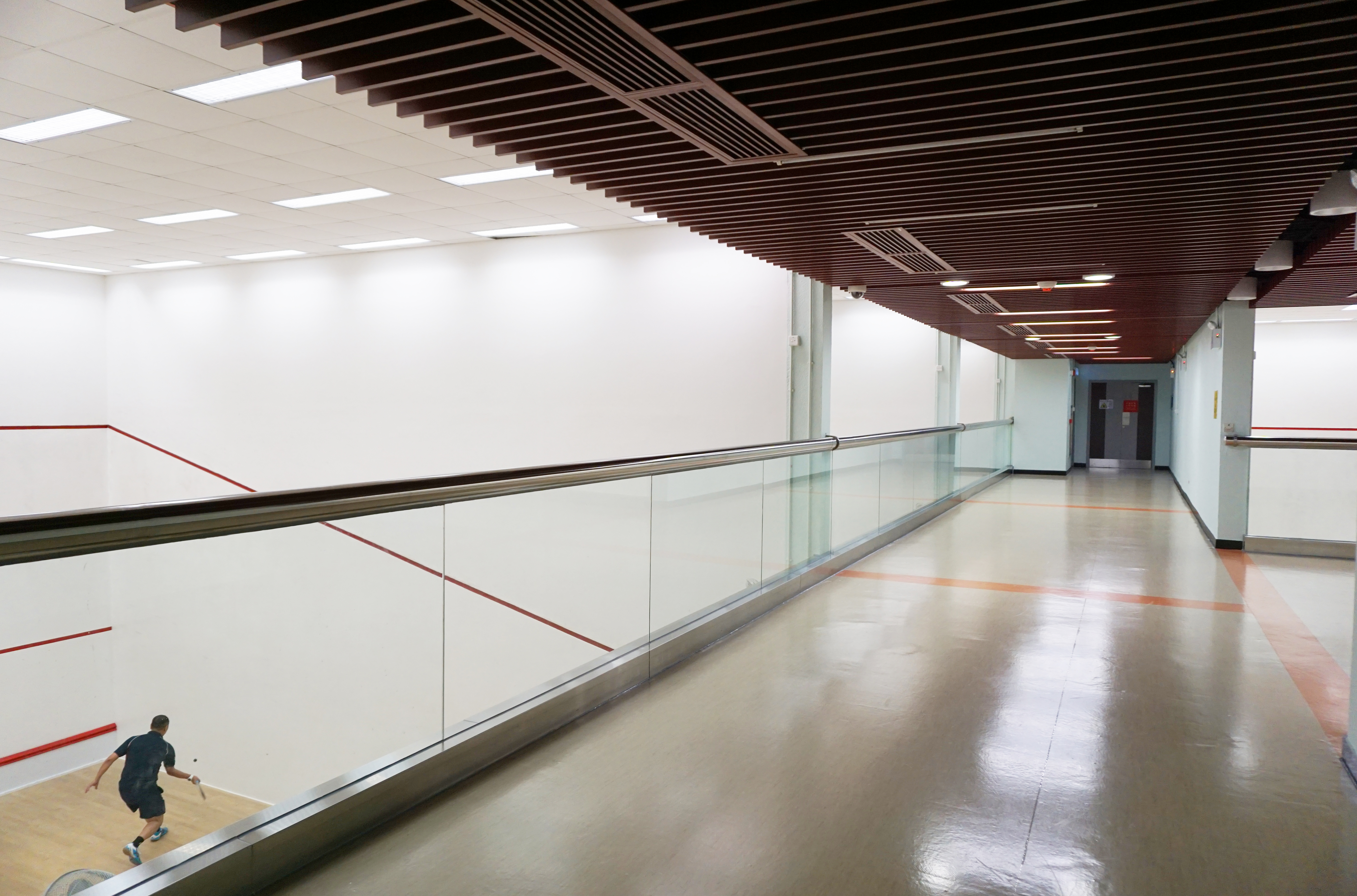 Hong Kong Squash Centre in Admiralty, Hong Kong.